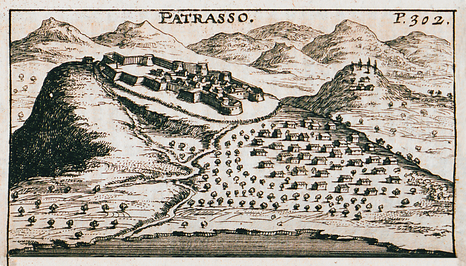 Jacob von Sandrart. Kurtze und vermehrte Beschreibung von dem Ursprung, Aufnehmen, Gebiete und Regierung der weltberühmten Republik Venedig, Nürnberg, Kupfferstechern und Kunst-Händlern, 1687.